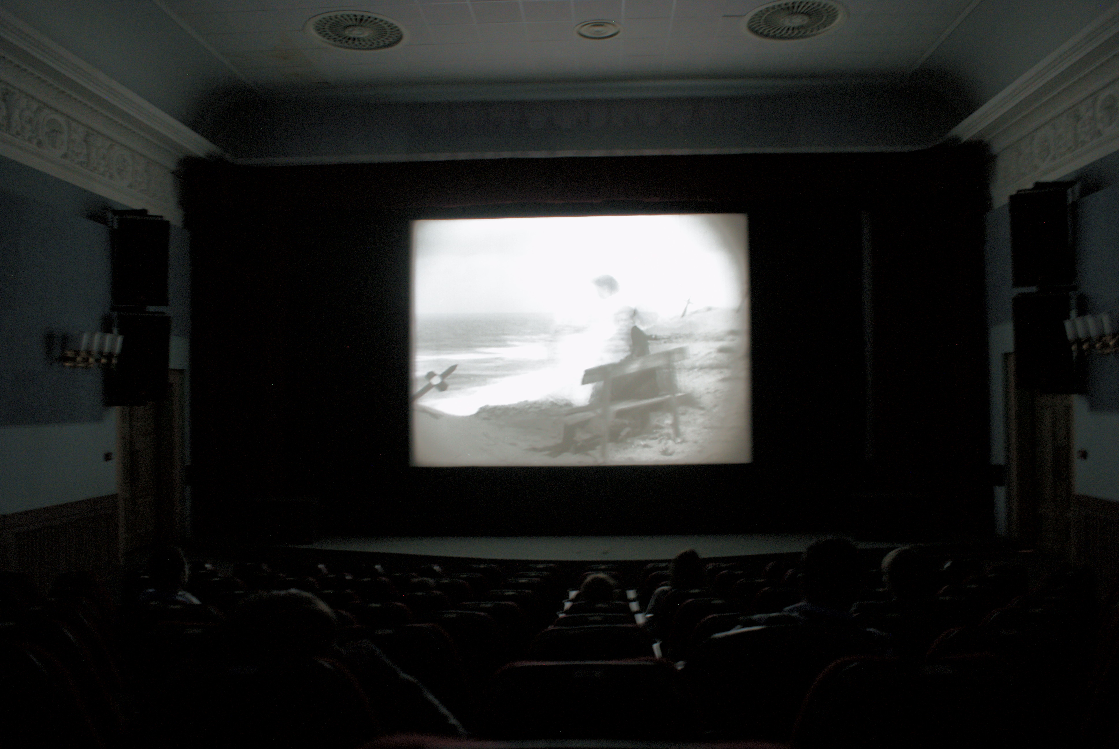 Film screening in «Illusion» cinema .